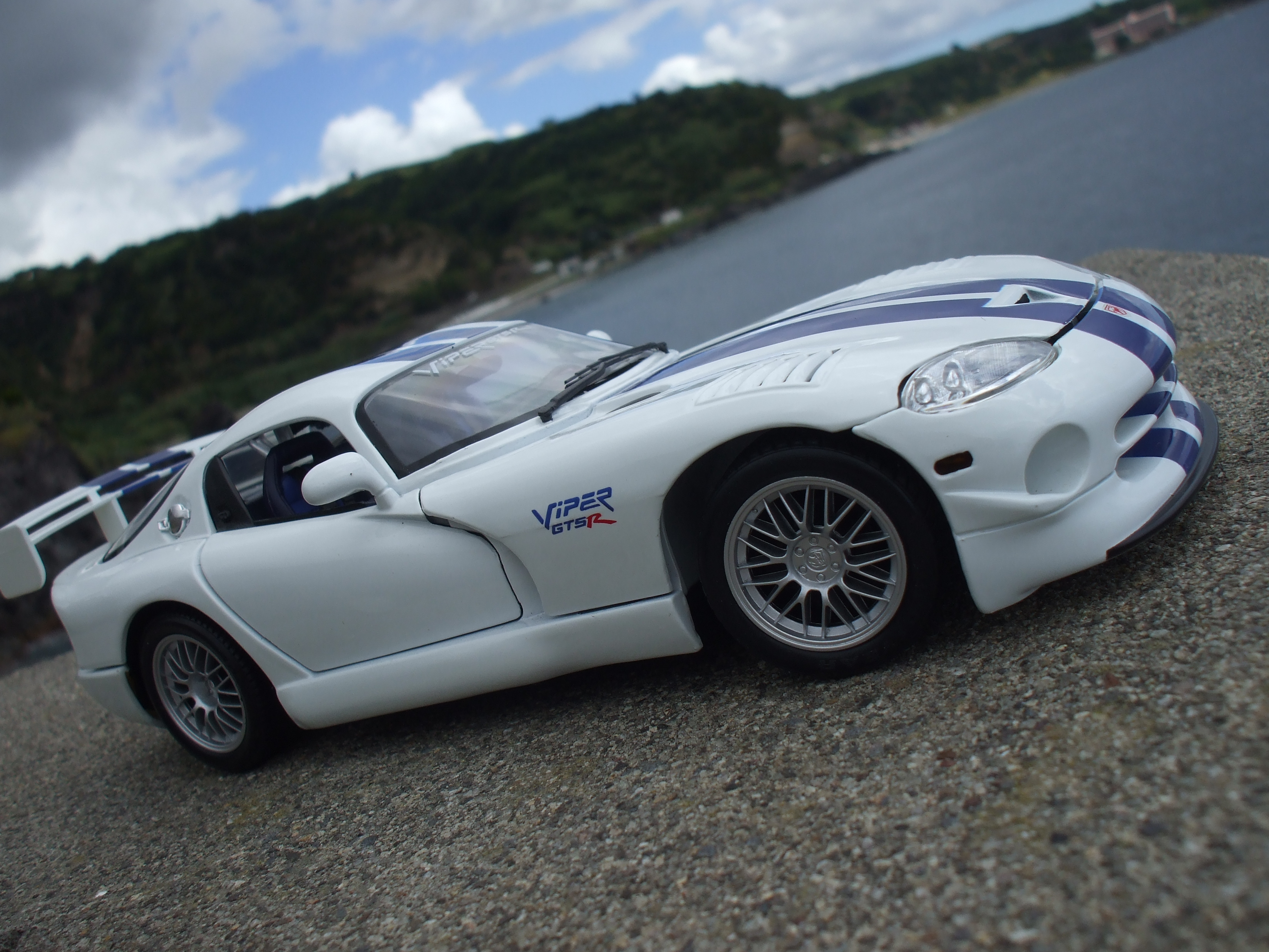 car